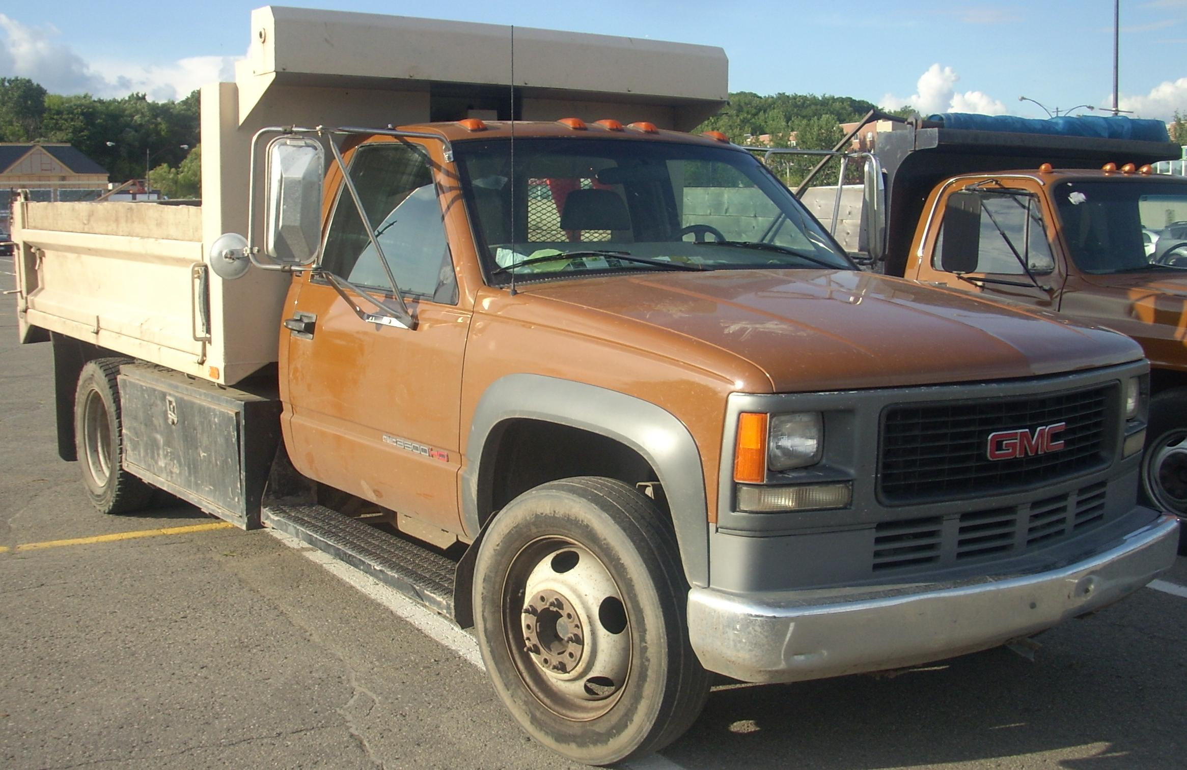 1997-2002 GMC C/K 3500 HD photographed in Montreal, Quebec, Canada.